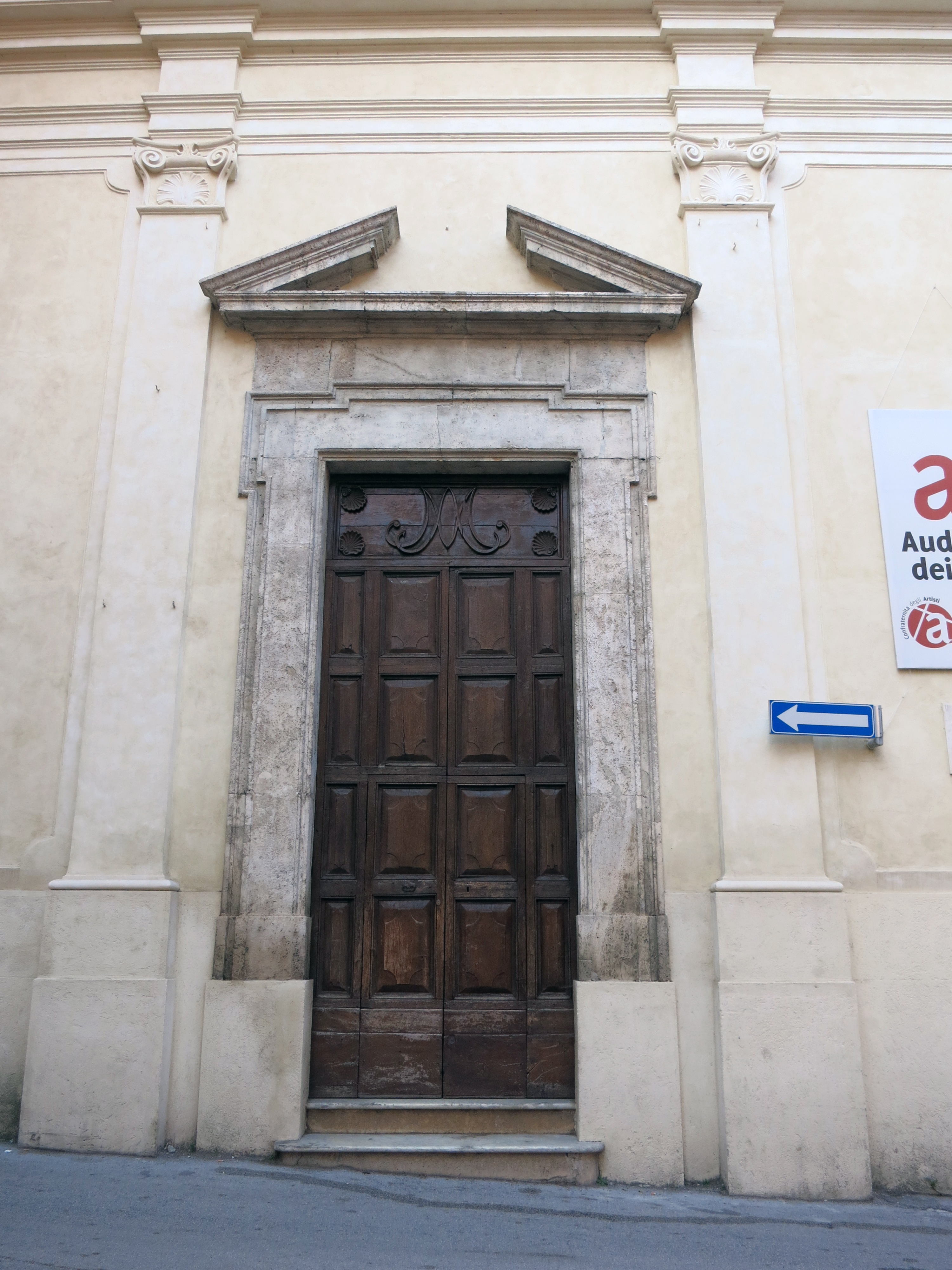 San Giovenale and San Vincenzo Ferreri church, also known as Santa Maria della Scala - Rieti, Lazio, Italy